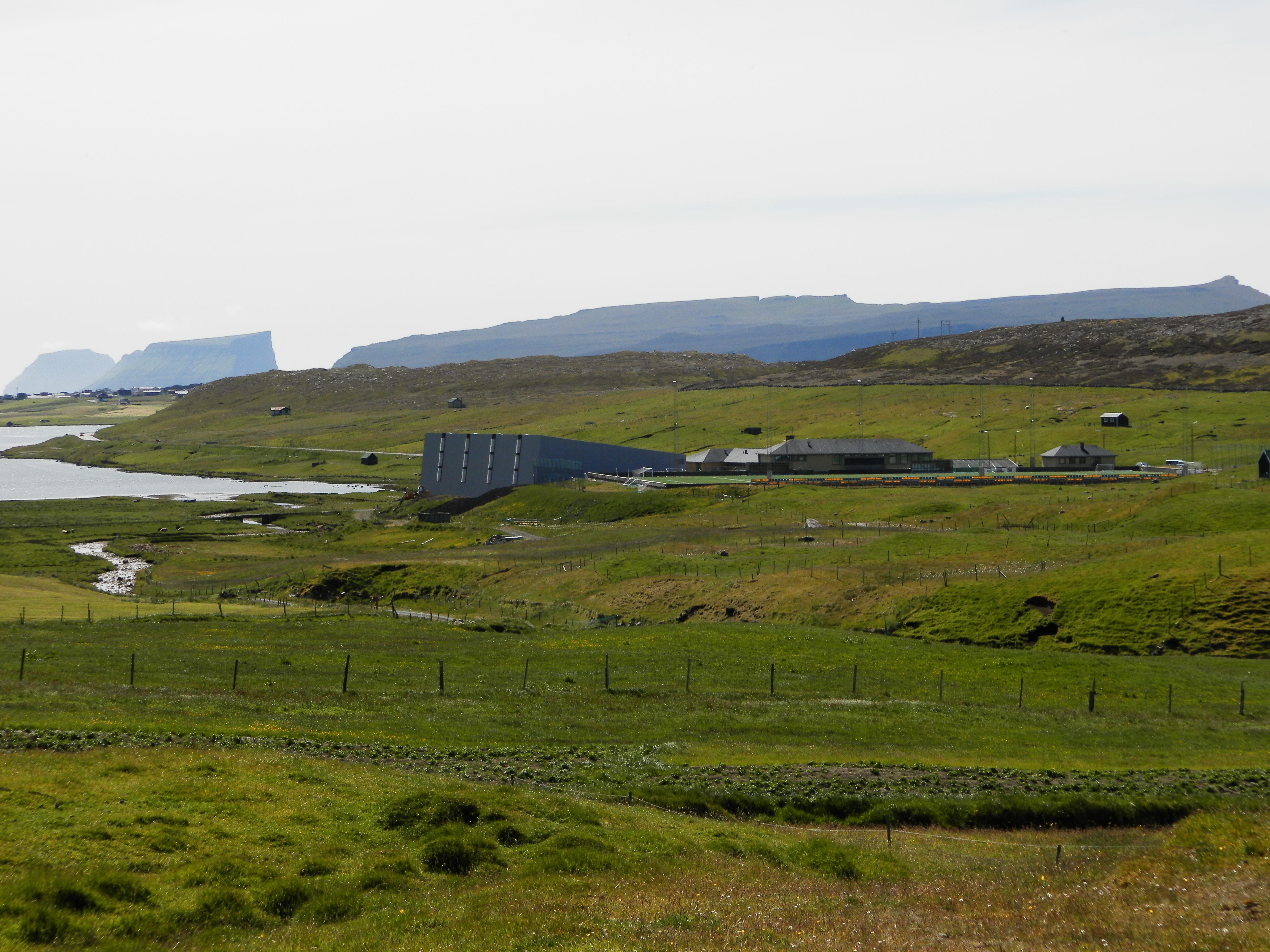 Inni í Dal (in the Valley) on Sandoy, Faroe Islands, is a place where the football stadium of B71 Sandoy is located along with the school and the new sports hall. The school is for children from all of Sandoy island. The lake on this photo is Sandsvatn, which is the largest lake on the island. You can also see the small islands Lítla Dímun, Stóra Dímun and Skúvoy. Føroyskt: Inni í Dal á Sandoynni. Myndin er tikin 12. juli 2012. Nýggja ítróttarhøllin var í gerð og næstan liðug tá. Á myndini síggjast meginskúlin á Sandi, fótbóltsvøllurin hjá B71, Sandsvatn, nakað av Sandsbygd og oyggjarnar Lítla Dímun, Stóra Dímun og Skúvoy.